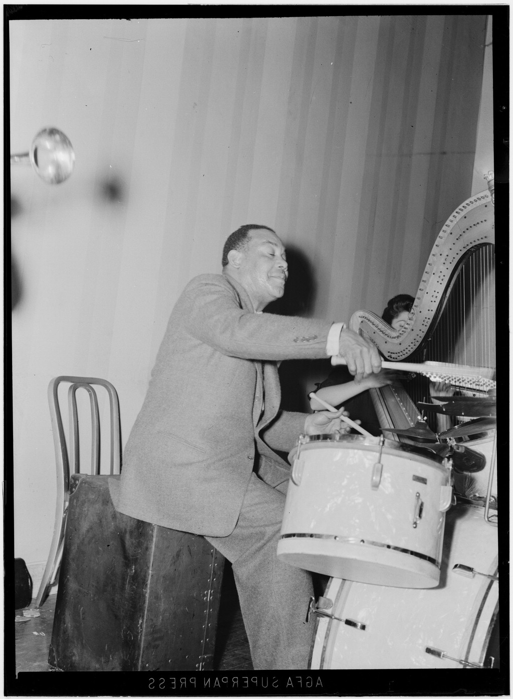 Portrait of Zutty Singleton and Adele Girard, National Press Club, Washington